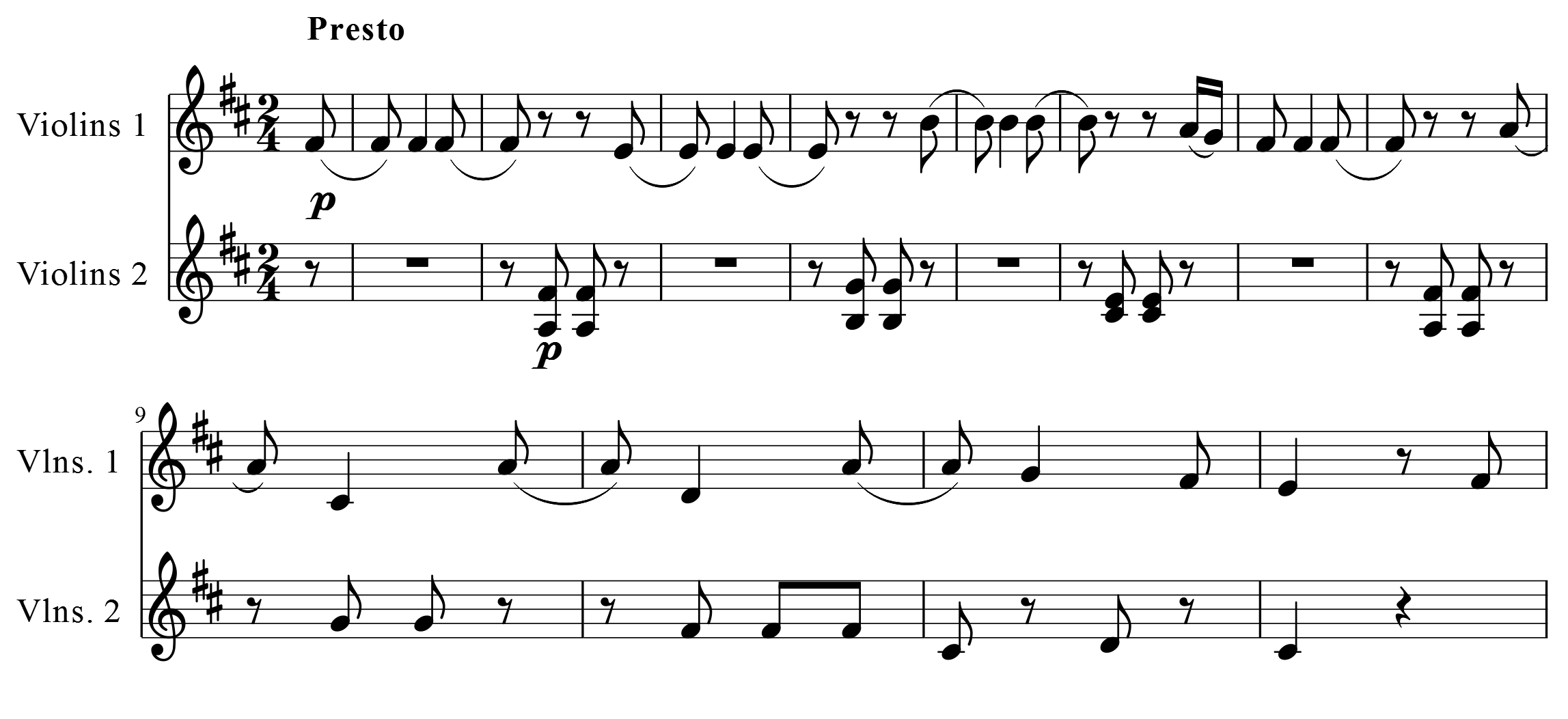 Joseph Haydn, Symphony No. 80, last movement, bar 1-12